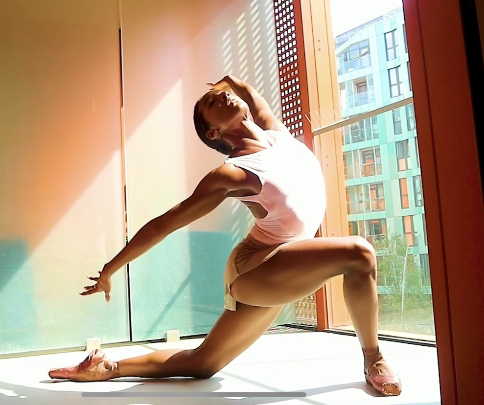 Swans For Relief - Precious Adams, English National Ballet, England Donate: 32 premier ballerinas from 22 dance companies in 14 countries perform Le Cygne (The Swan) variation sequentially in support of Swans for Relief. Organized by Misty Copeland and Joseph Phillips, 100% of the funds raised will be distributed to each dancer’s company’s COVID-19 relief fund, or other arts/dance-based relief fund in the event that a company is not set up to receive donations. To donate please visit, Ballet companies are largely dependent on revenue from performances to pay their dancers and fund their operations, but due to the coronavirus pandemic, all performances have been halted. Consequently, many dancers are unable to depend on paychecks and are facing the hardship of paying rent and/or buying food and other necessities. Le Cygne (The Swan) with music by Camille Saint-Saëns, performed by cellist Wade Davis (USA), with choreography by Michel Fokine by kind permission of the Fokine Estate-Archive.